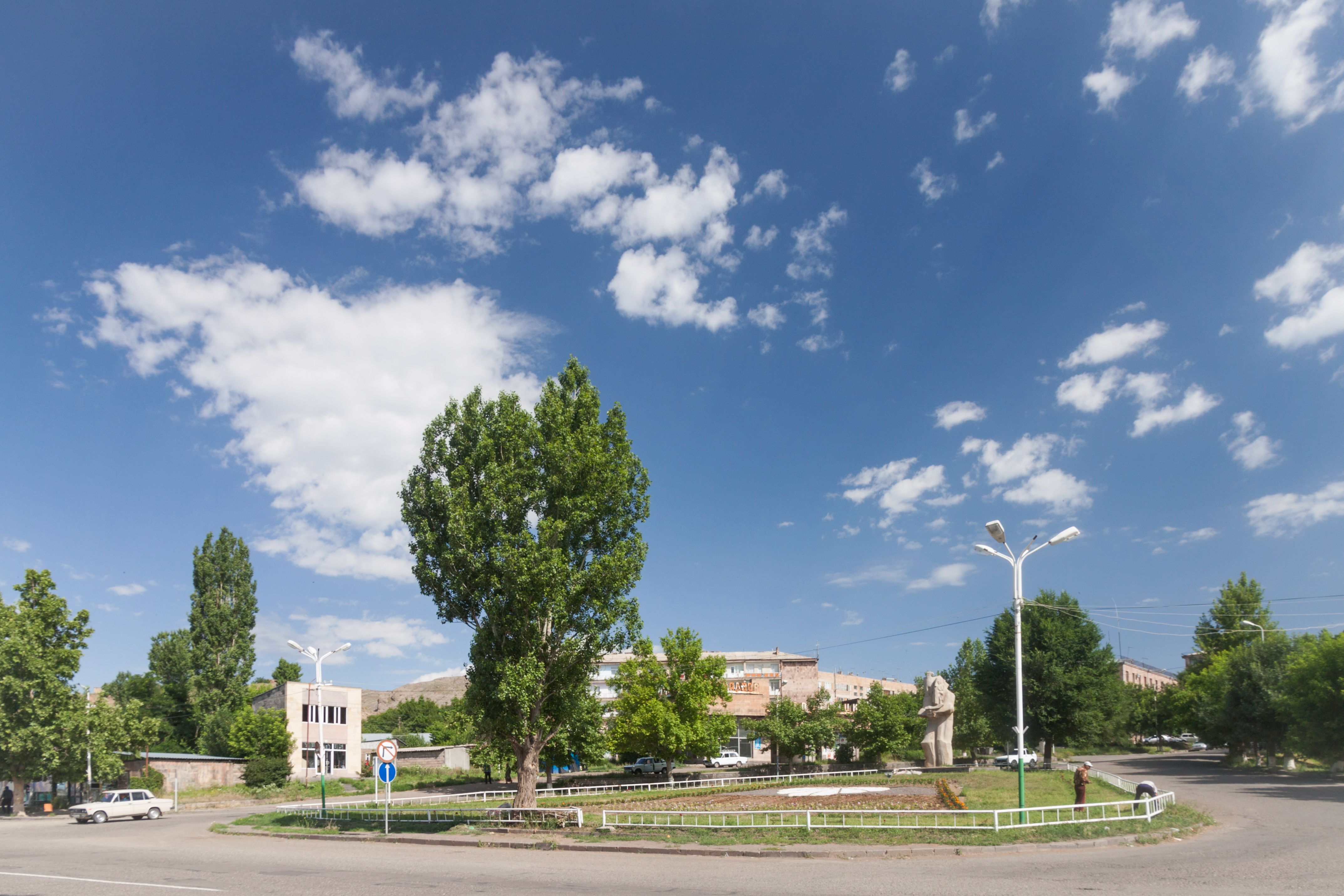 The entrance to the city center from the side of the road M2. Yeghegnadzor, Vayots Dzor Province, Armenia.